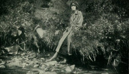 Elsie Wright sit on a bank where the first photography of Cottinglry fairies were tought.